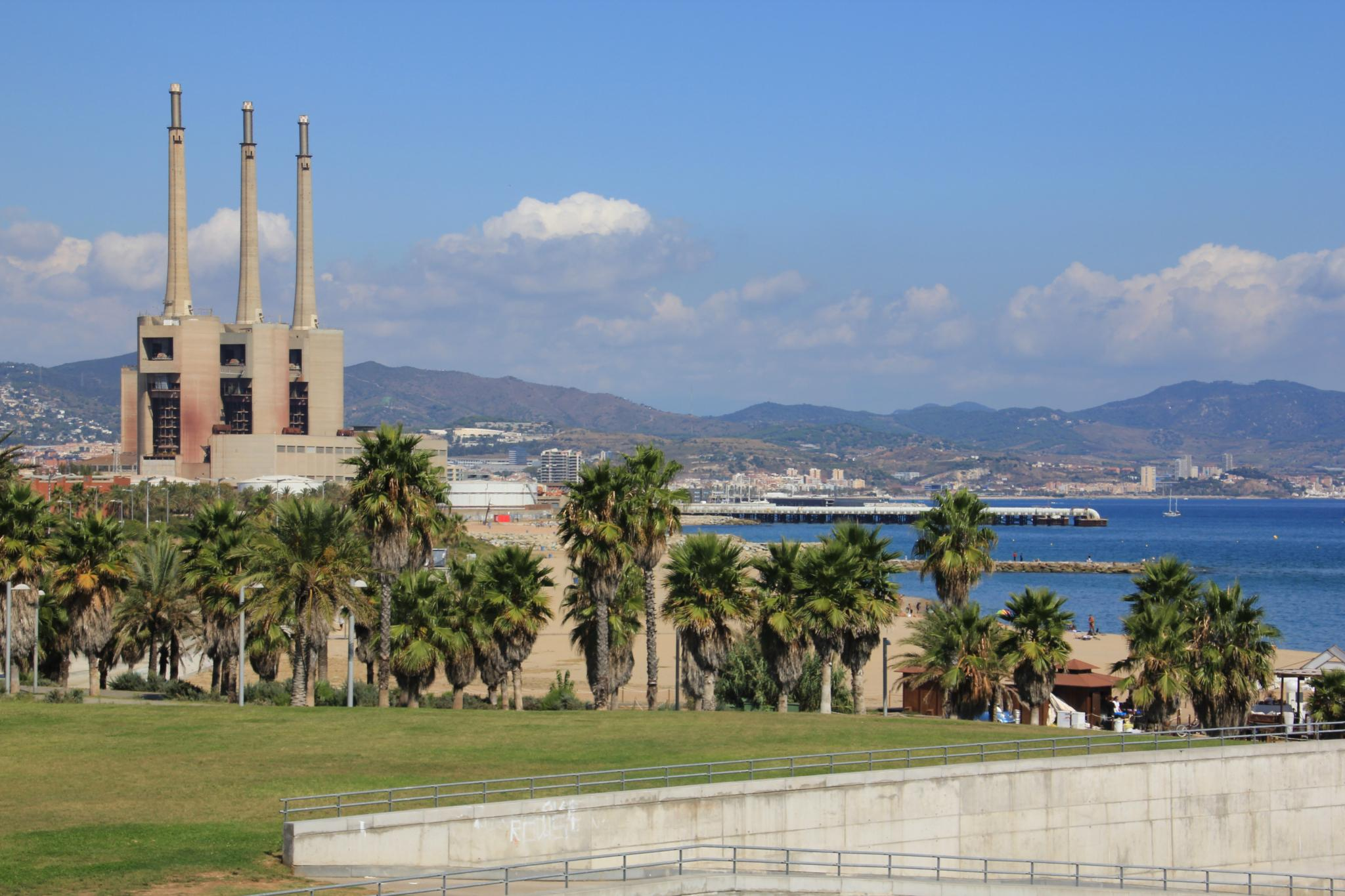 Electric power station of Sant Adrià del Besòs